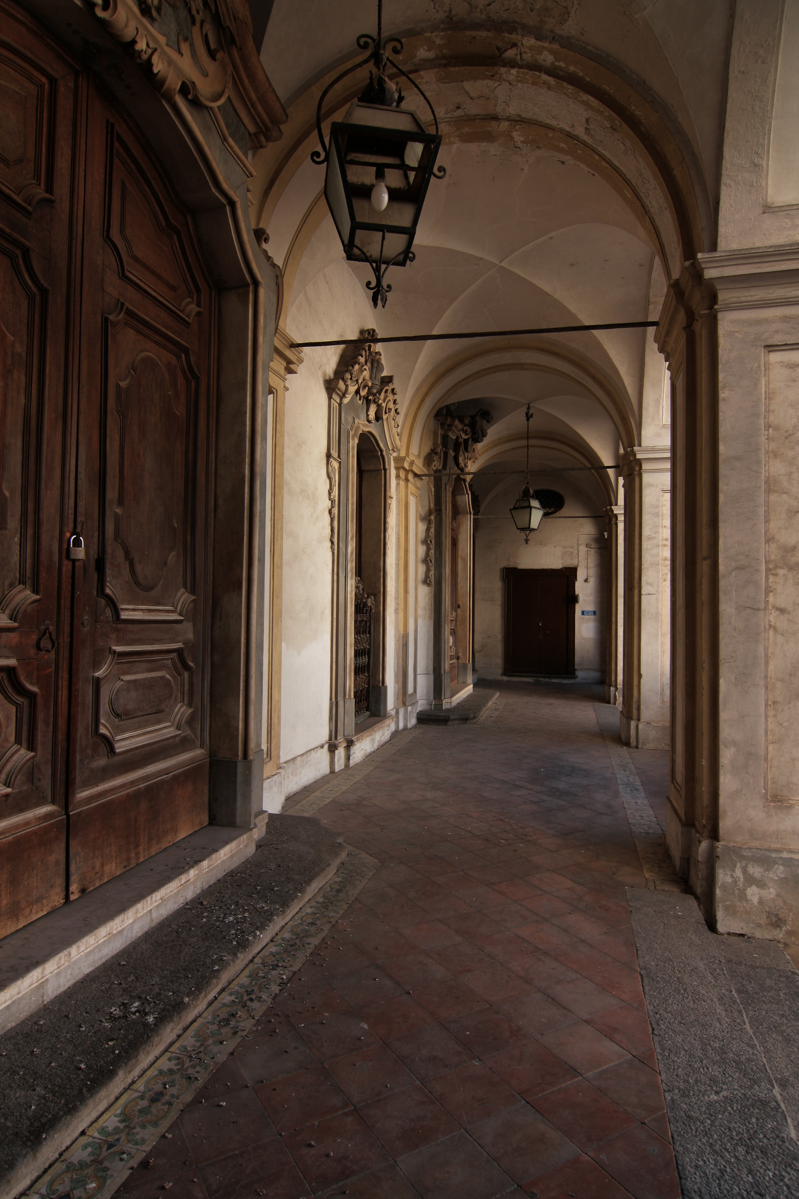 Incurabili (Naples)